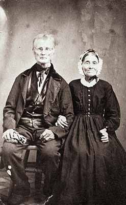 Elijah Bristow (1788-1872) and Susanna Gabbert Bristow (1791–1874), pioneers who settled in Lane County, Oregon.